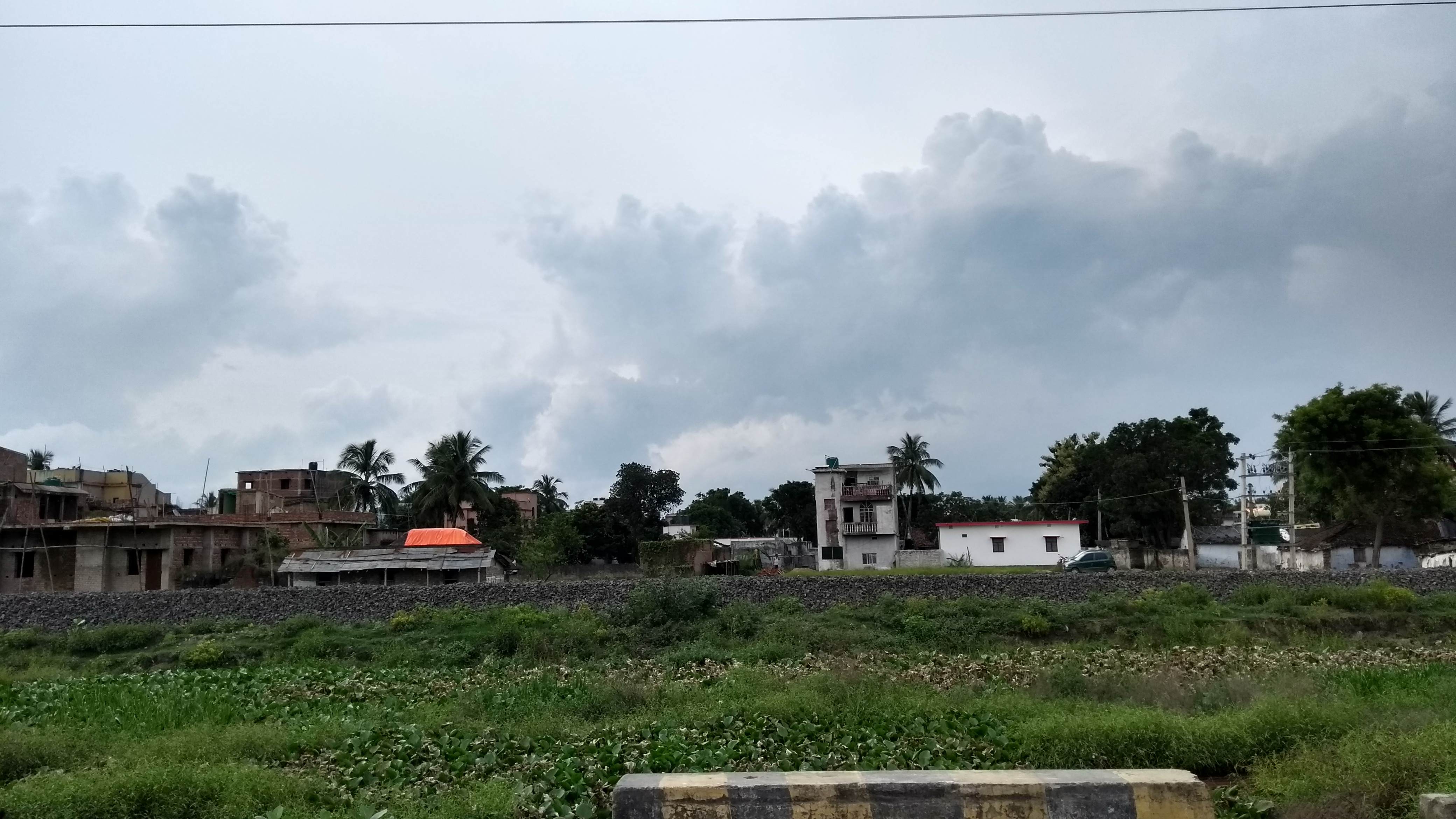 Broad Gauge Conversion near Rajwanshi Nagar, Saharsa